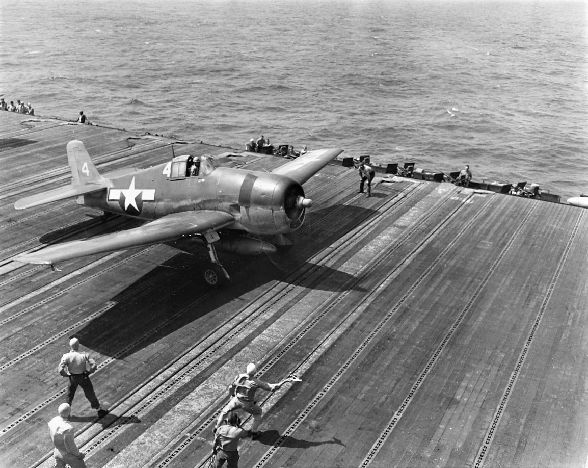 A U.S. Navy Grumman F6F Hellcat of Fighting Squadron 16 (VF-16) taking off from the aircraft carrier USS Lexington (CV-16) for a raid on Formosa, about 12 October 1944.